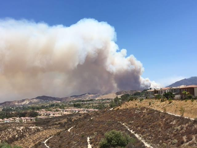 Afternoon winds causing the Sand Fire to increase intensity today. Photo taken in SCV by our IMET Rich Thompson. South to southeast wind gusts 19-27 mph in the area.